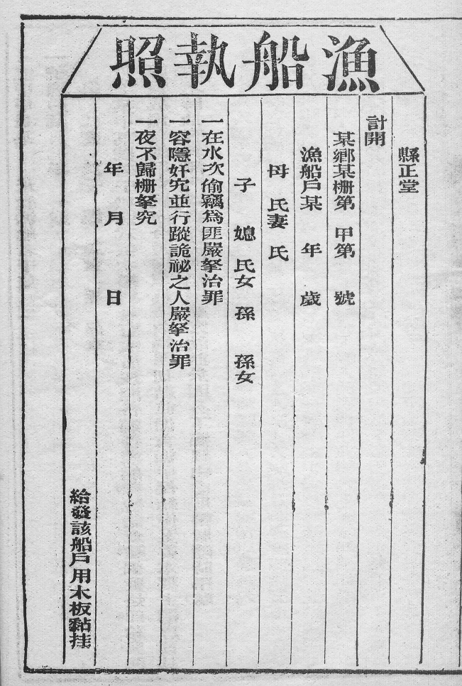 Qing dynasty fishing license for boat operators from the Baojiashu jiyao (保甲書輯要) published in 1838.